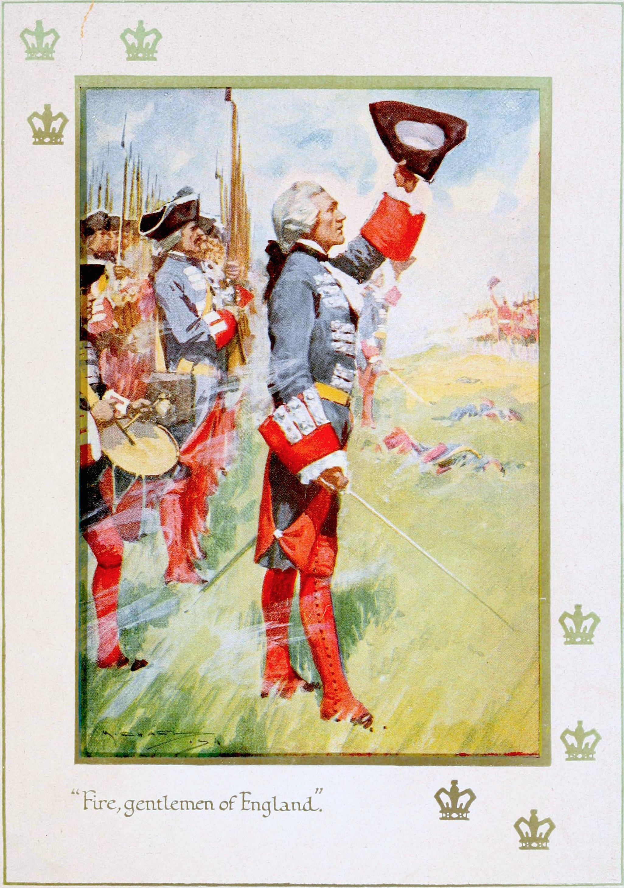 Cropped version of File:Fre, Gentlemen of England.jpg a scene from the battle of Fontenoy 1745